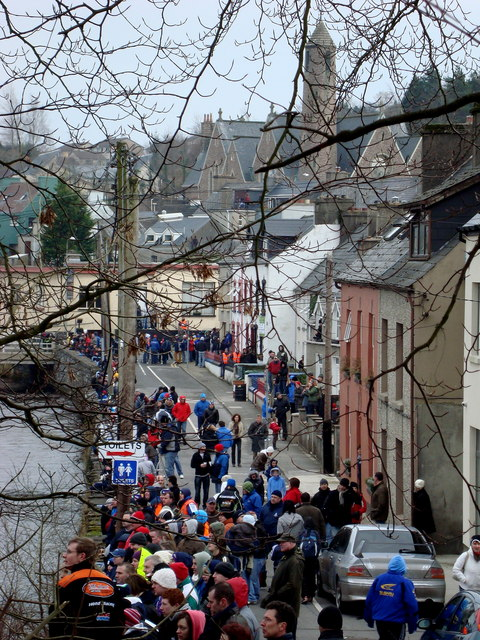 Rally goers in Donegal Crowds gather along the banks of the river at Eske Terrace to catch the rally action.